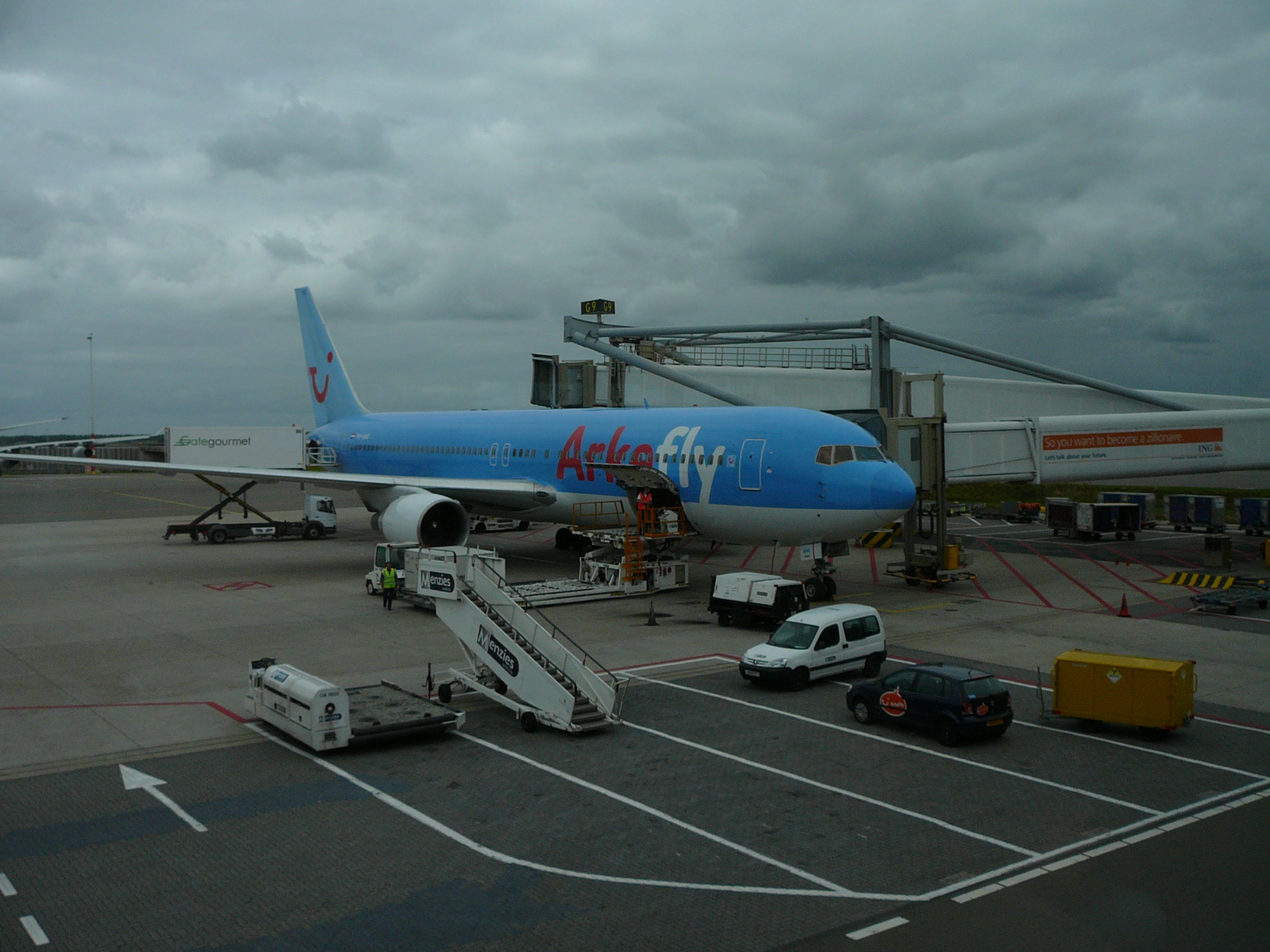 Airplane from ArkeFly at Schiphol airport, the Netherlands